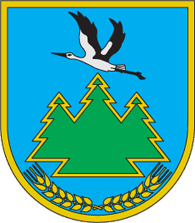 Coat of arms of Manevickij district (Ukraine)